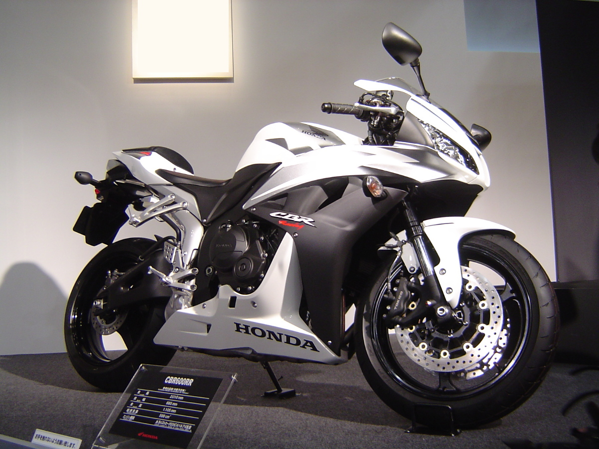 HONDA CBR600RR (2007 Tokyo Motorcycle Show)